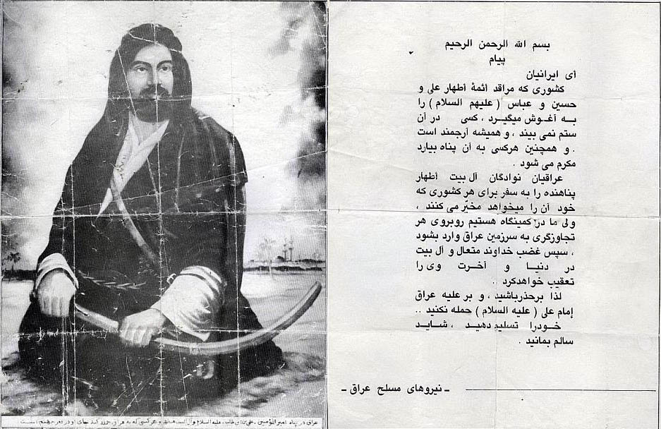 An admonitory declaration issued from Iraqi government in order to warn Iranian troops in Iran-Iraq war. The statement says Hey Iranians! No one has been downtrodden in the country where Ali ibn Abi Ṭālib, Husayn ibn Ali and Abbas ibn Ali are buried. Iraq has undoubtedly been honorable country. All refugee should be precious. Everybody who wants to live in exile can choose Iraq freely. We Iraq's sons have been ambushing to foreign aggressors. The enemies who plan to assault to Iraq are going to be disfavored with God in this world and eternity universe. Be careful to think to attack to Iraq and Ali ibn Abi Ṭālib! If you surrender Perhaps you will be in peace.